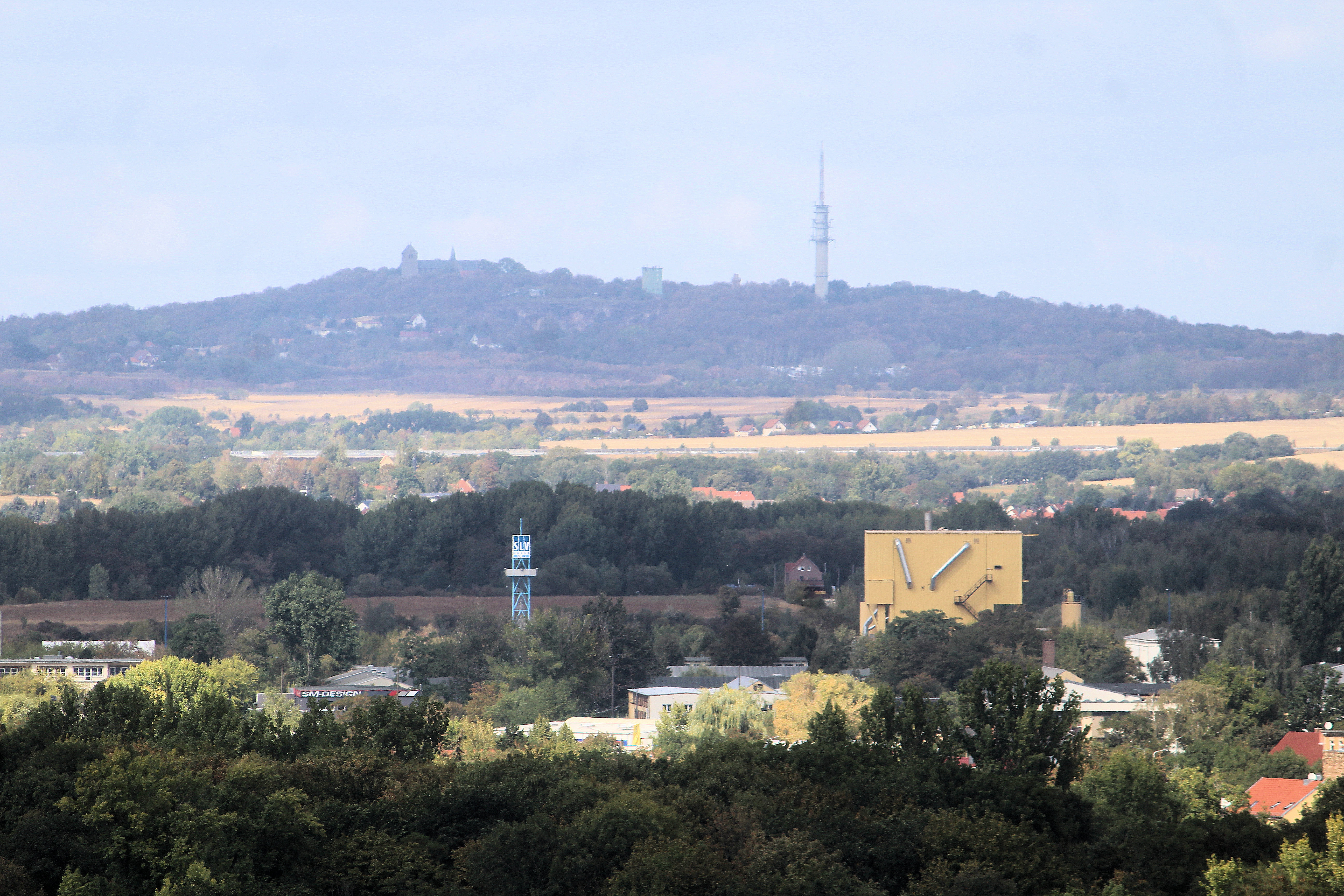 Halle (Saale), view from Giebichenstein castle to the Petersberg